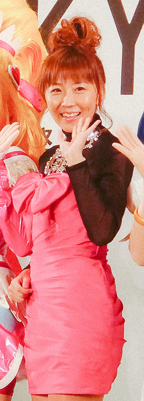 A cropped version of the previously uploaded photo of DokiDoki Pretty Cure!'s seiyu, uploaded by Coro95.